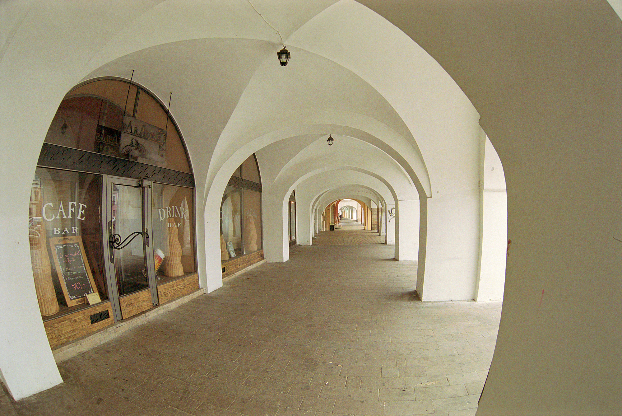 own picture, taken in early 2005 Hradec Králové, access balcony around the market place